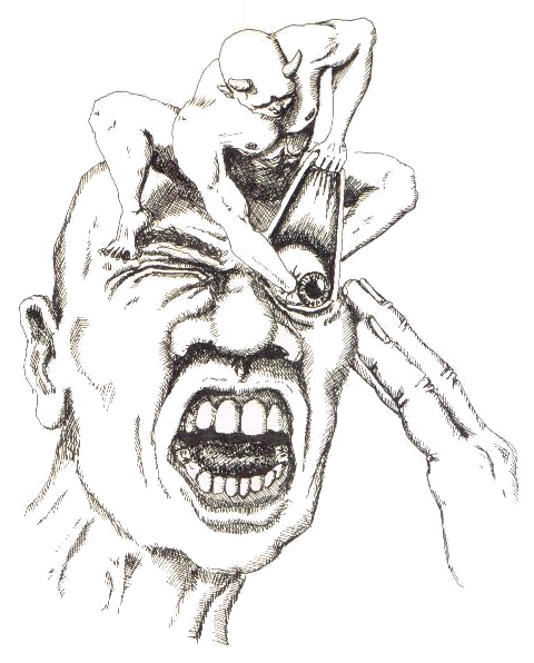 Drawing "THE CLUSTER HEADACHE" Subtitle: "ANYONE WHO SUFFERS FROM CLUSTER HEADACHES CAN RELATE TO THIS DRAWING".